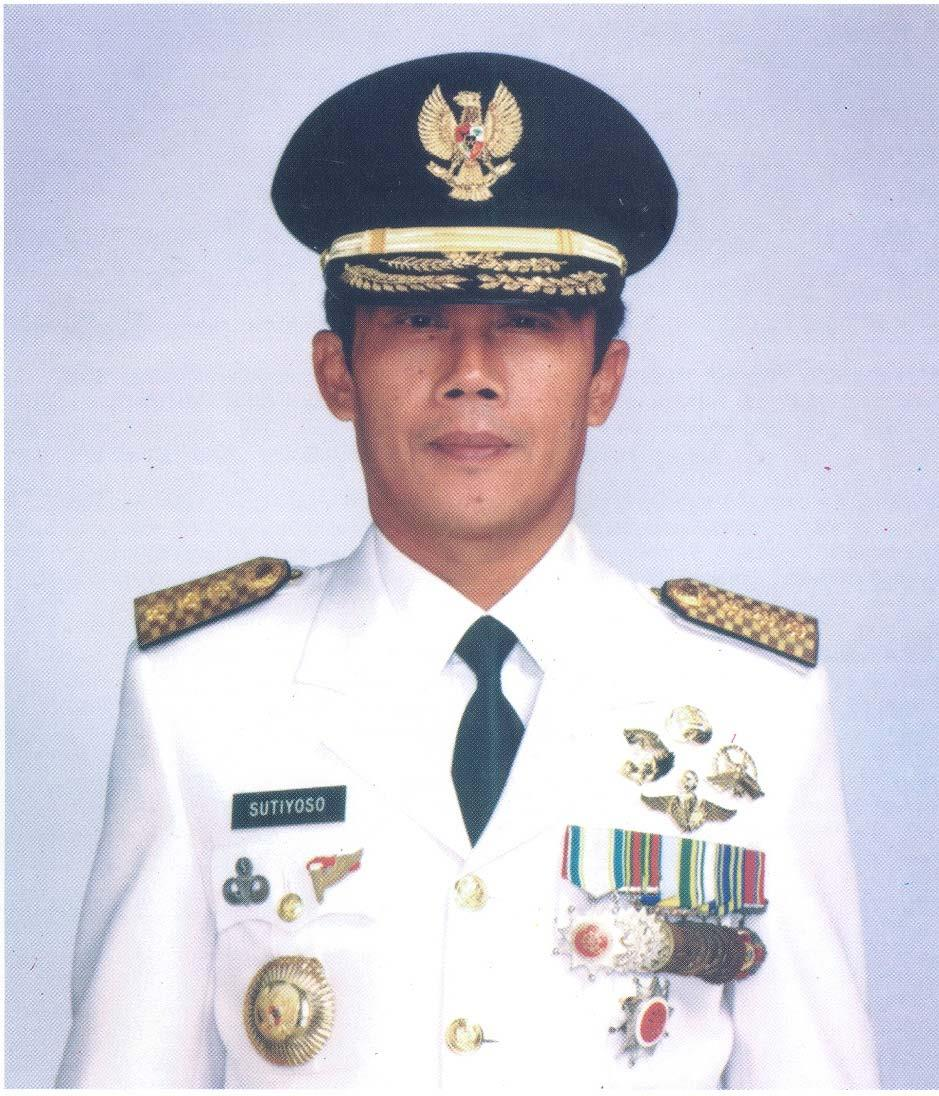 Sutiyoso as the Governor of Jakarta.